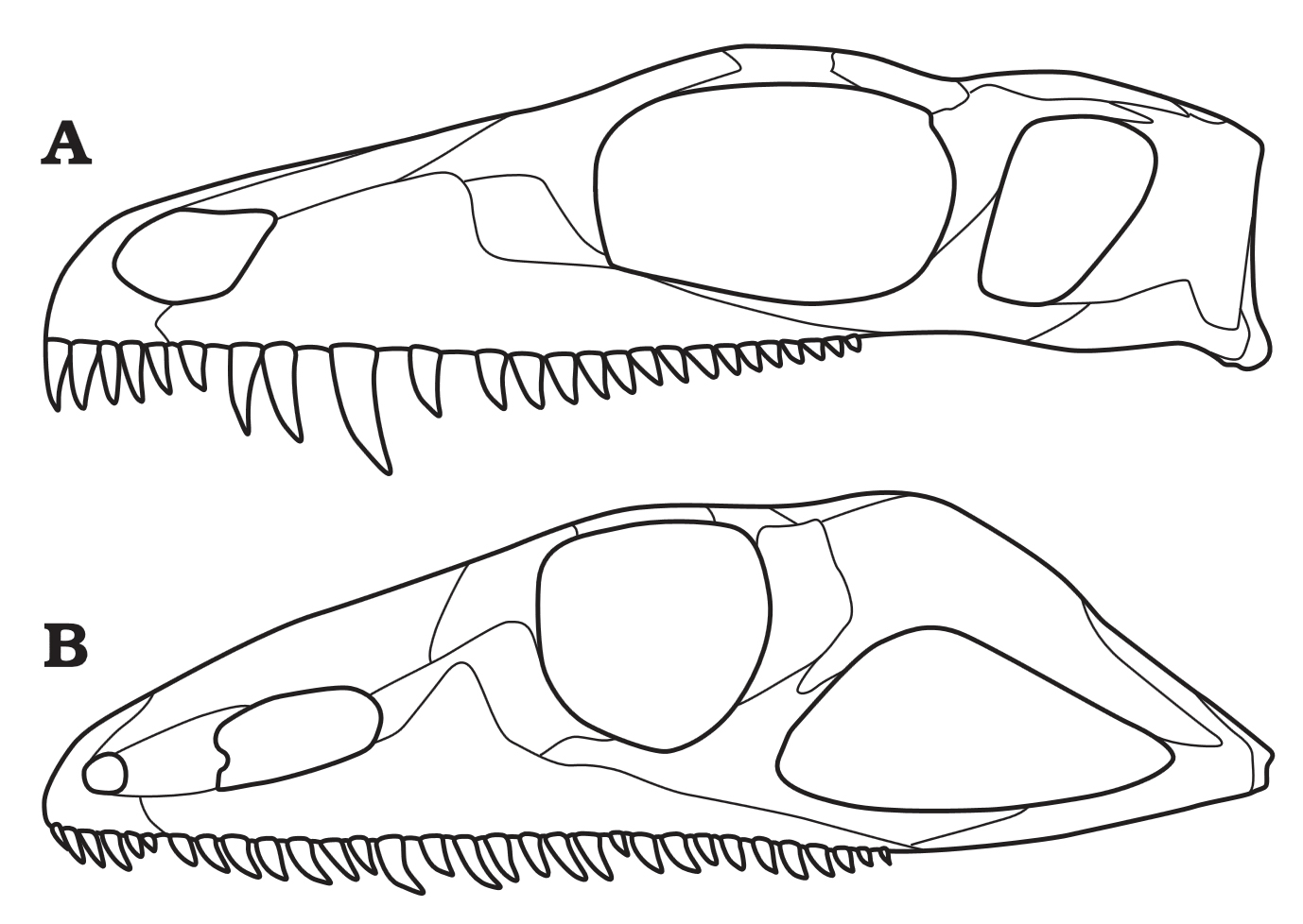 Original figure caption: Outline reconstructions of the skull of varanopids. A. Mesenosaurus romeri Efremov, 1938 (modified from Reisz and Berman 2001). B. Varanodon agilis Olson, 1965 (modified from Reisz and Laurin 2004). These taxa show the characteristic differences in the occiput of varanopids. Not to scale.